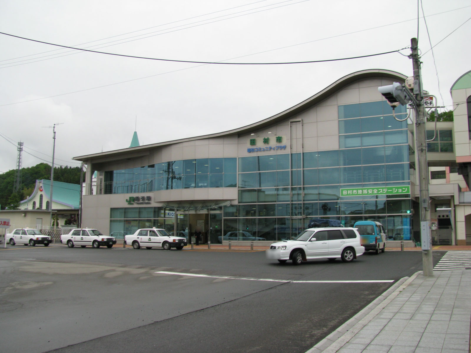 Funehiki Station - in Tamura-city, Fukusima, Japan.